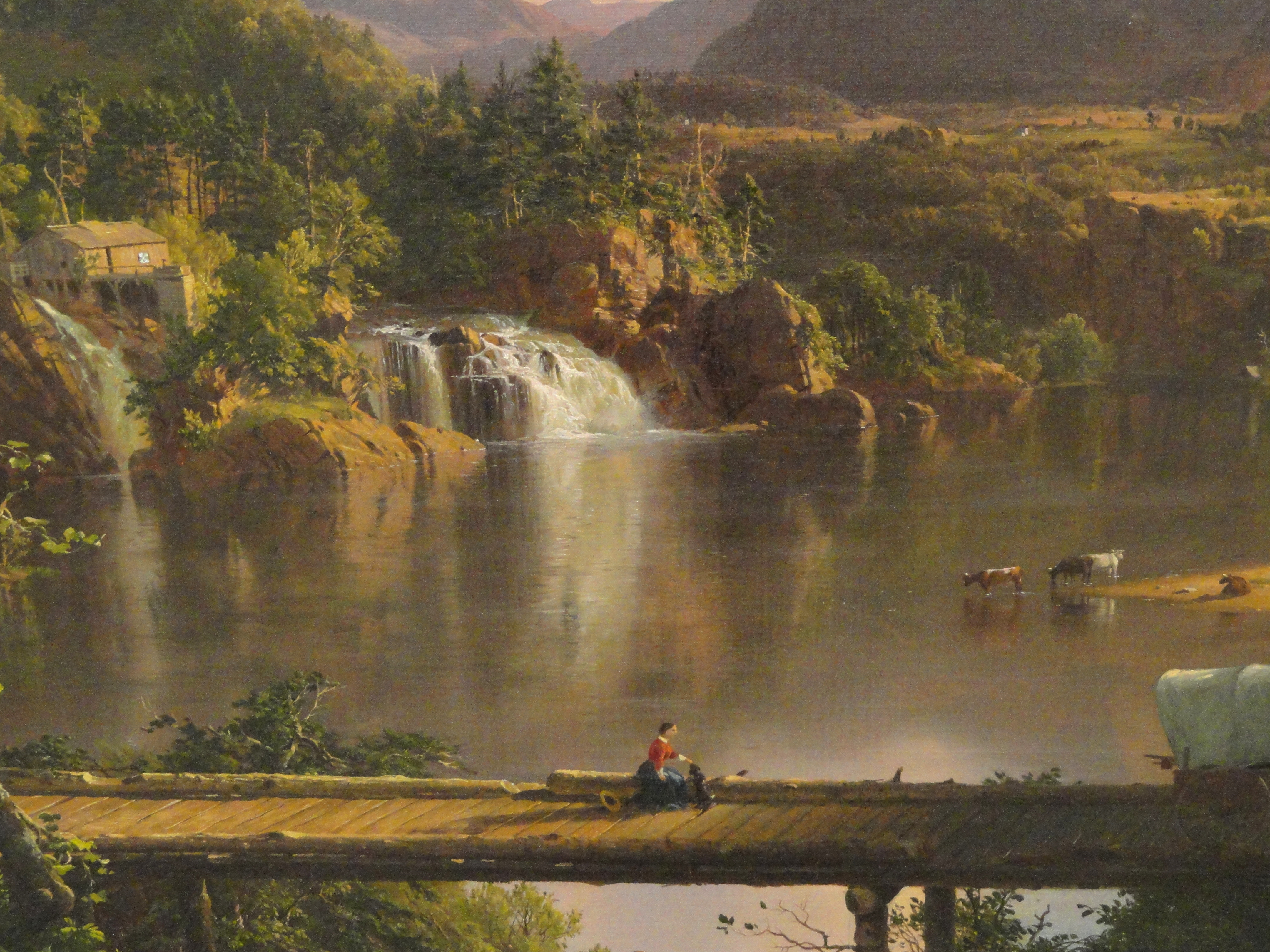 Exhibit in the Museum of Fine Arts, Springfield, Massachusetts, USA. This artwork is old enough so that it is in the public domain.